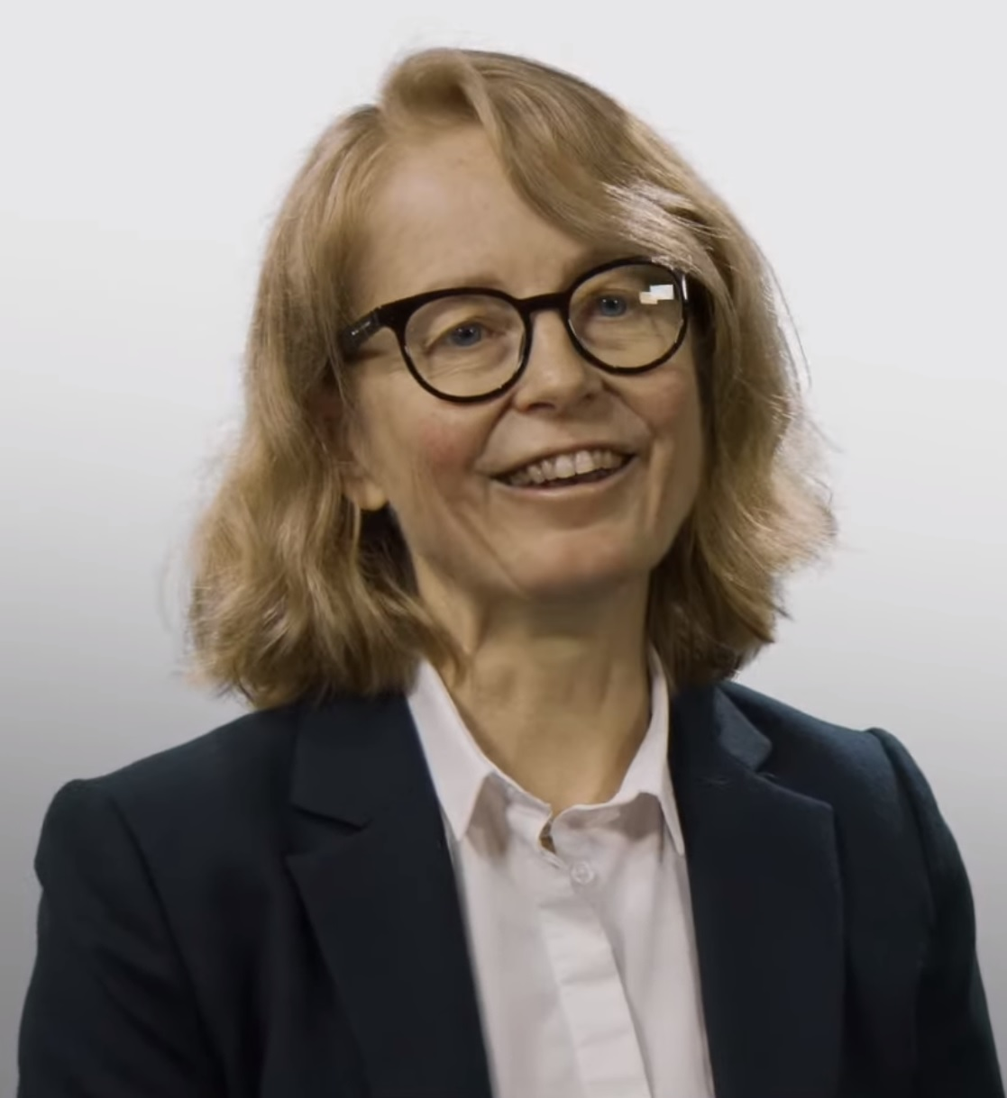 Shortlisted for Best External Collaboration to research stars very near to the Sun Research at The Open University Professor Carole Haswell, Faculty of Science, Technology, Engineering and Mathematics, has been shortlisted for Best External Collaboration award for research into stars very close to the Sun in The Open University's Research Excellence Awards 2019. Read the full shortlist